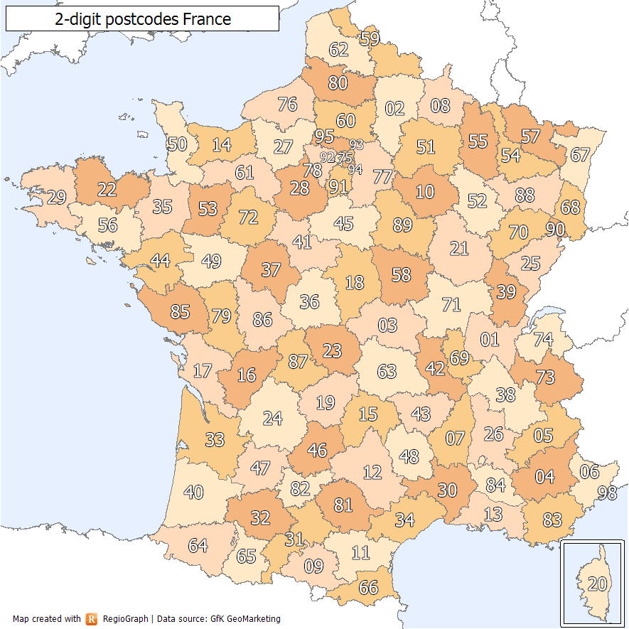 2-digit postcodes France: postcode areas, described through the first two digits of the French postcode system.